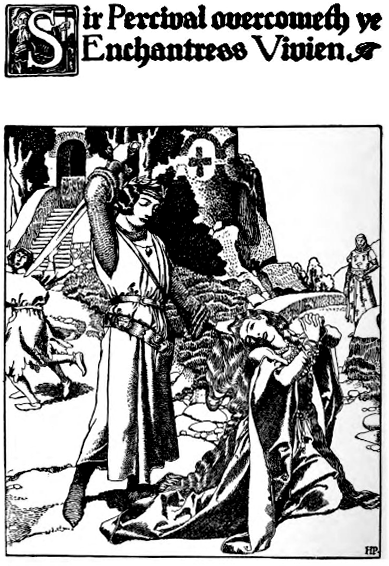 An illustration captioned "Sir Percival overcometh ye Enchantress Vivien".